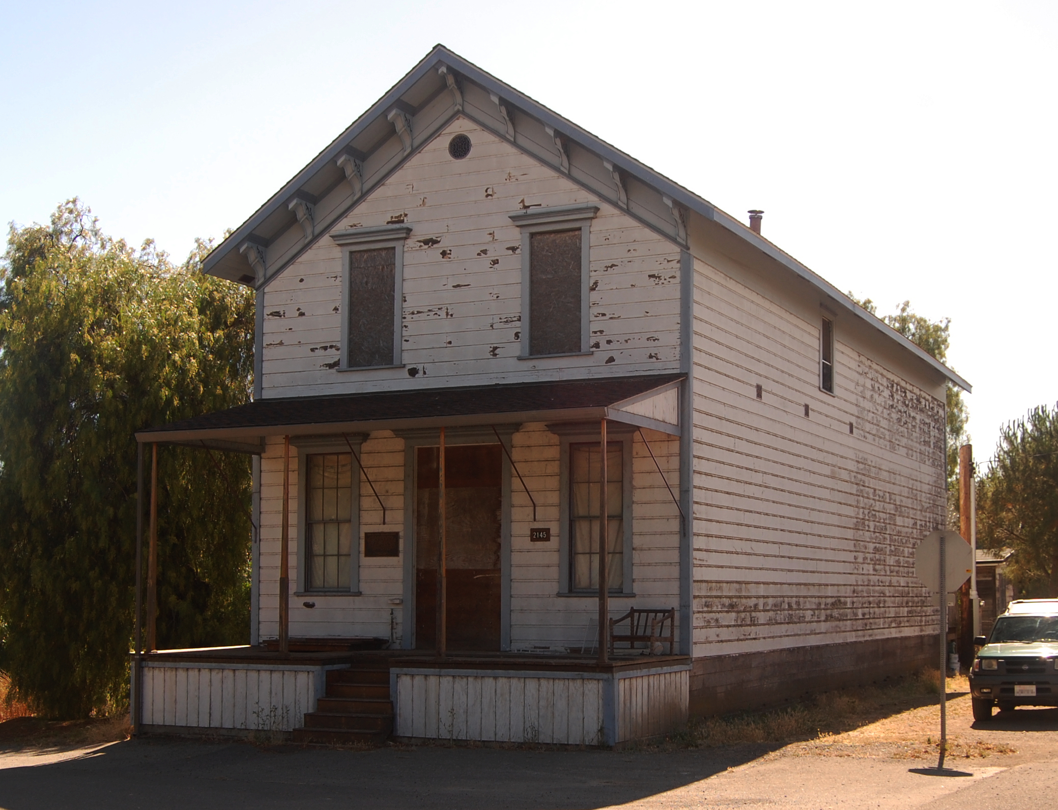 The Bird and Dinkelspiel Store, which is listed on the National Register of Historic Places, as it appeared in July of 2011.